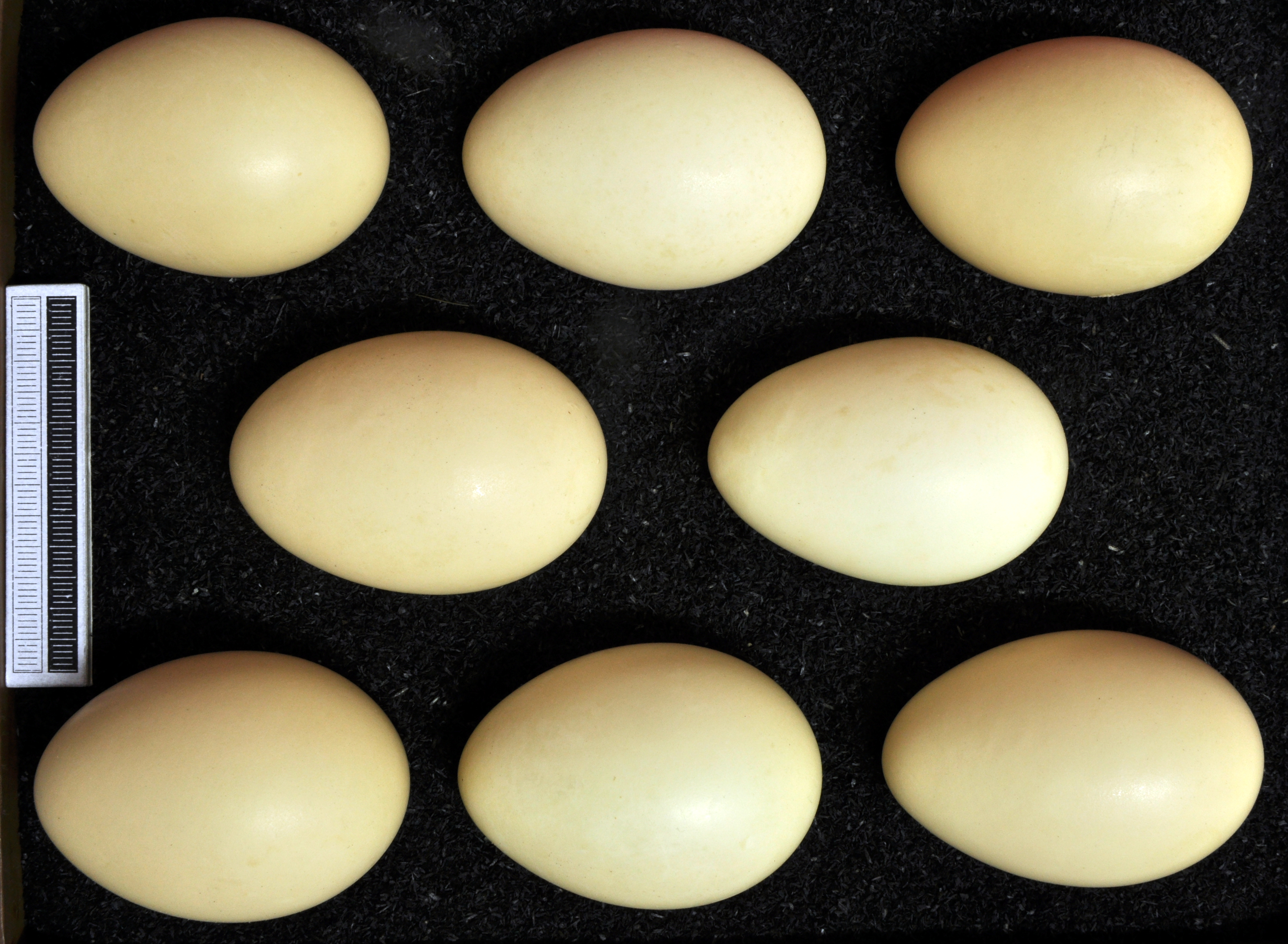 Harlequin duck Histrionicus histrionicus , egg, Coll. Museum Wiesbaden